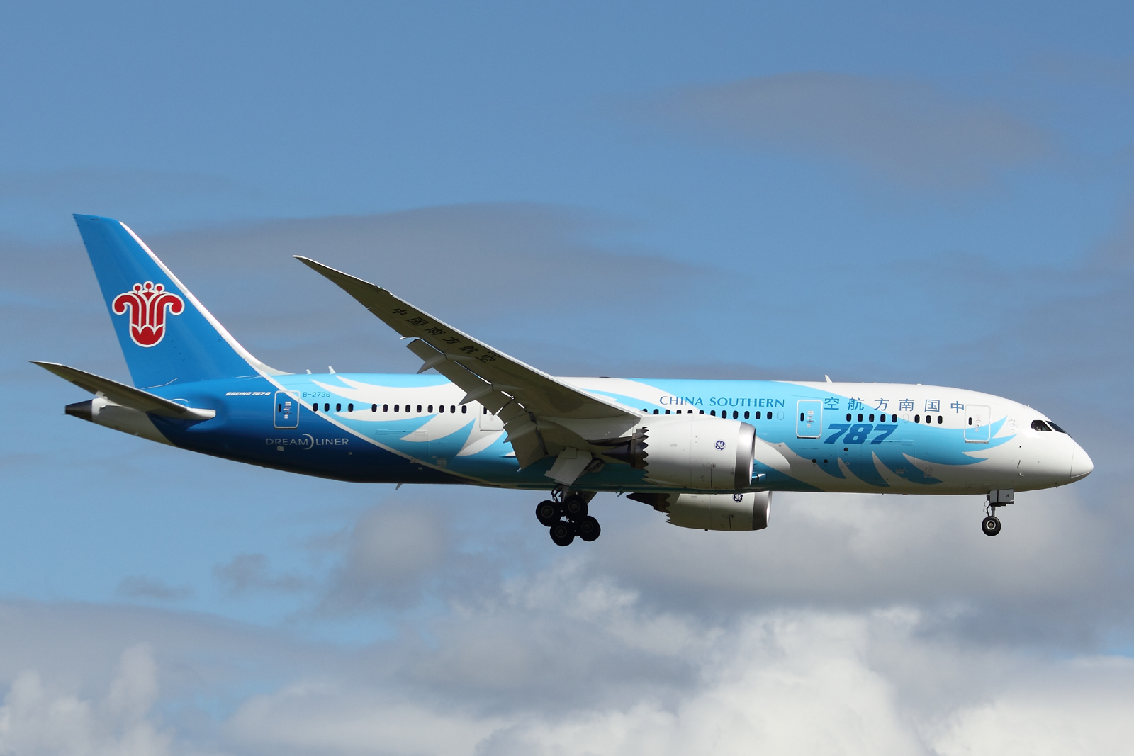 B-2736 Boeing 787-8 (34929), China Southern Airlines, 29 October 2013 - Auckland